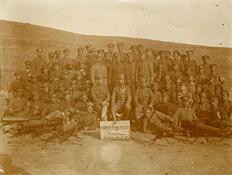 3 Machine Gun Company of 41 Regiment in Bitolya, 24 September 1917